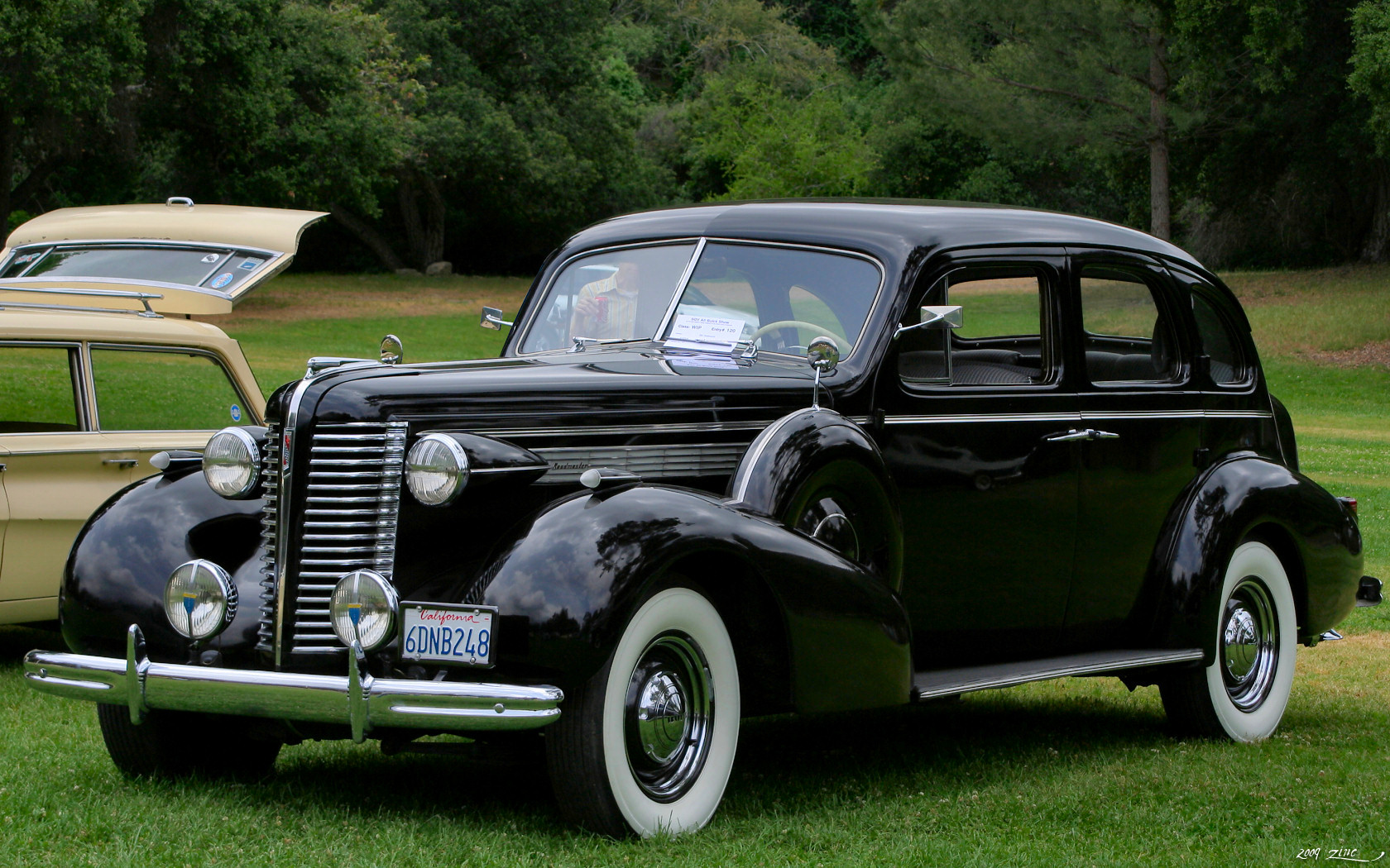 Glendale, CA, Buick Club, May 2, 2009